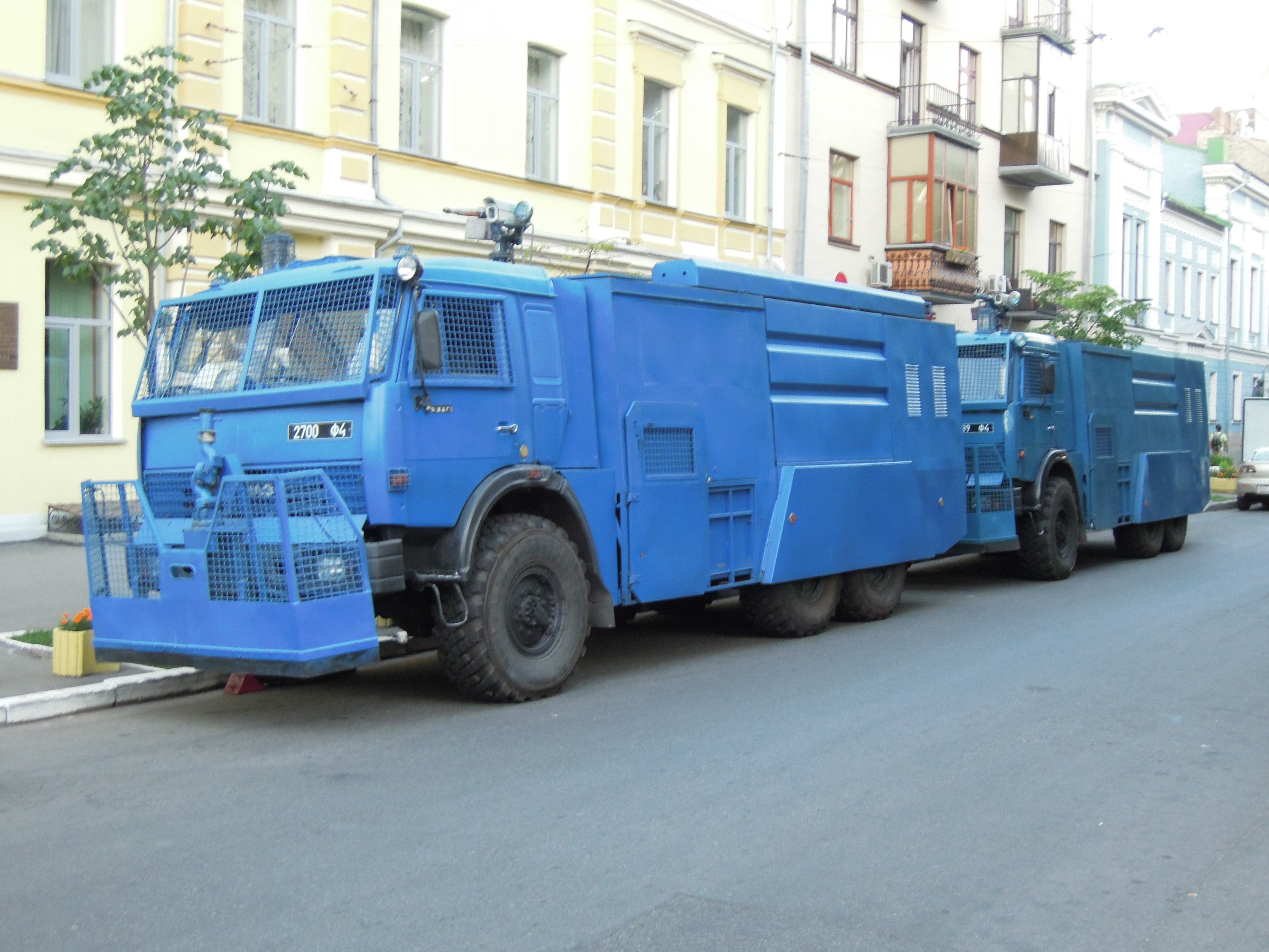 Ukrainian AVS-40 water cannons on KamAZ-43118 chassis